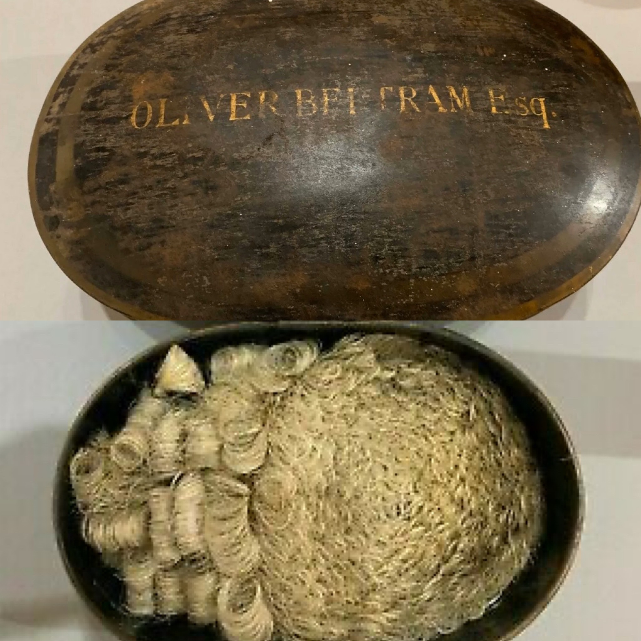 Oliver Bertram's Bar wig and win tin (c. 1933) made by Ede & Ravenscroft London